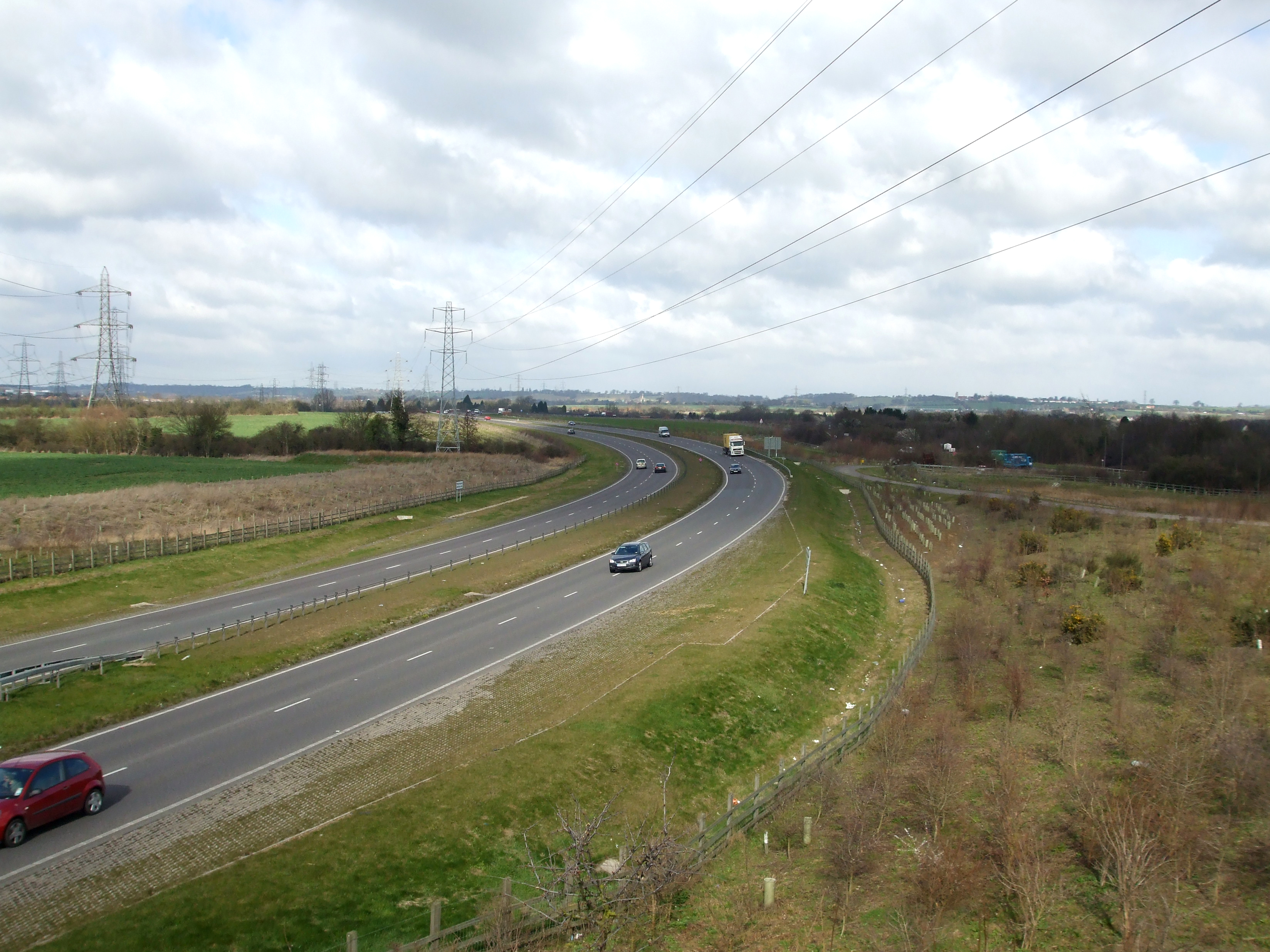 A130 at TQ777920